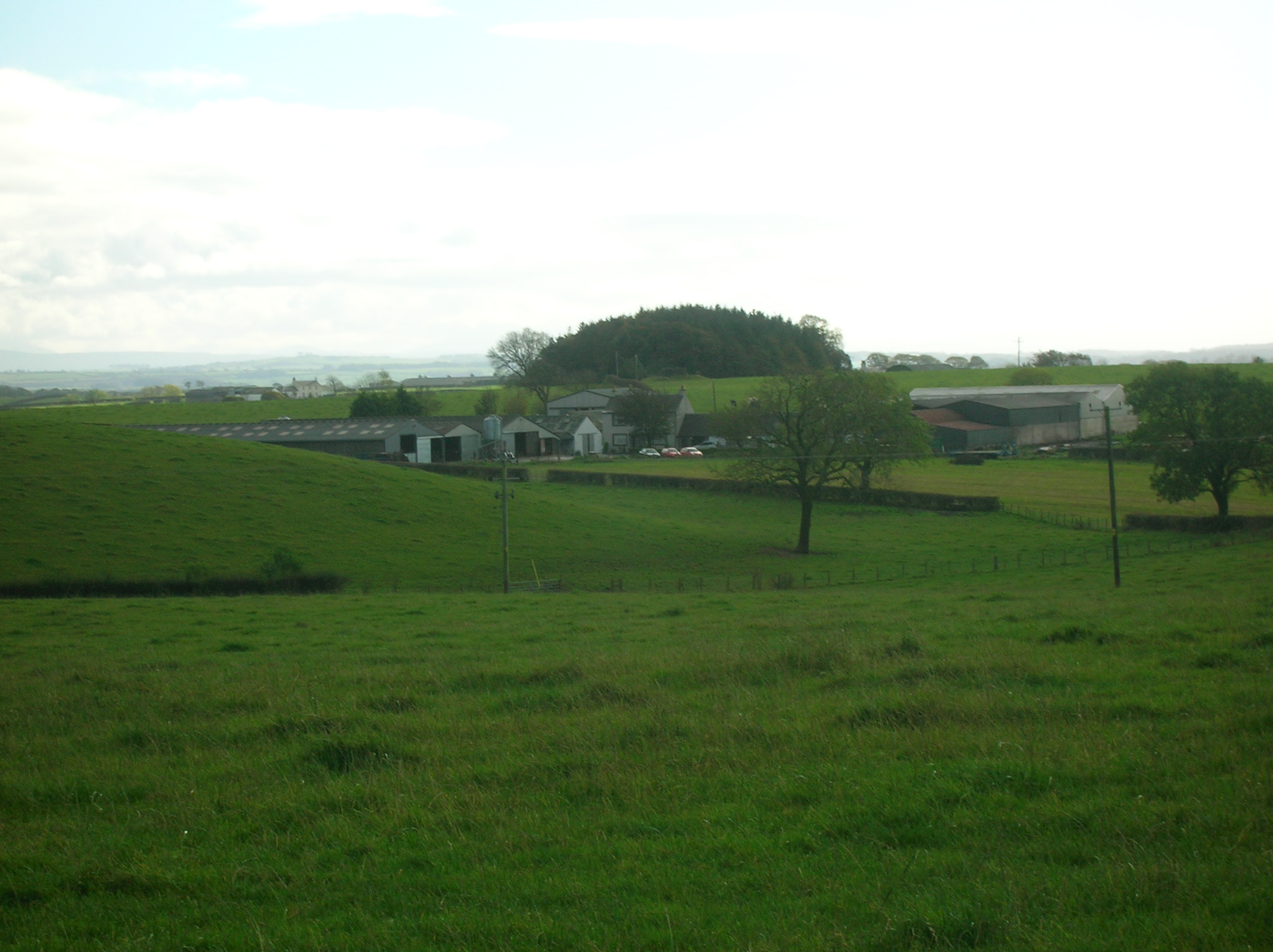 Bottoms point Crevoch farm, East Ayrshire, Scotland.